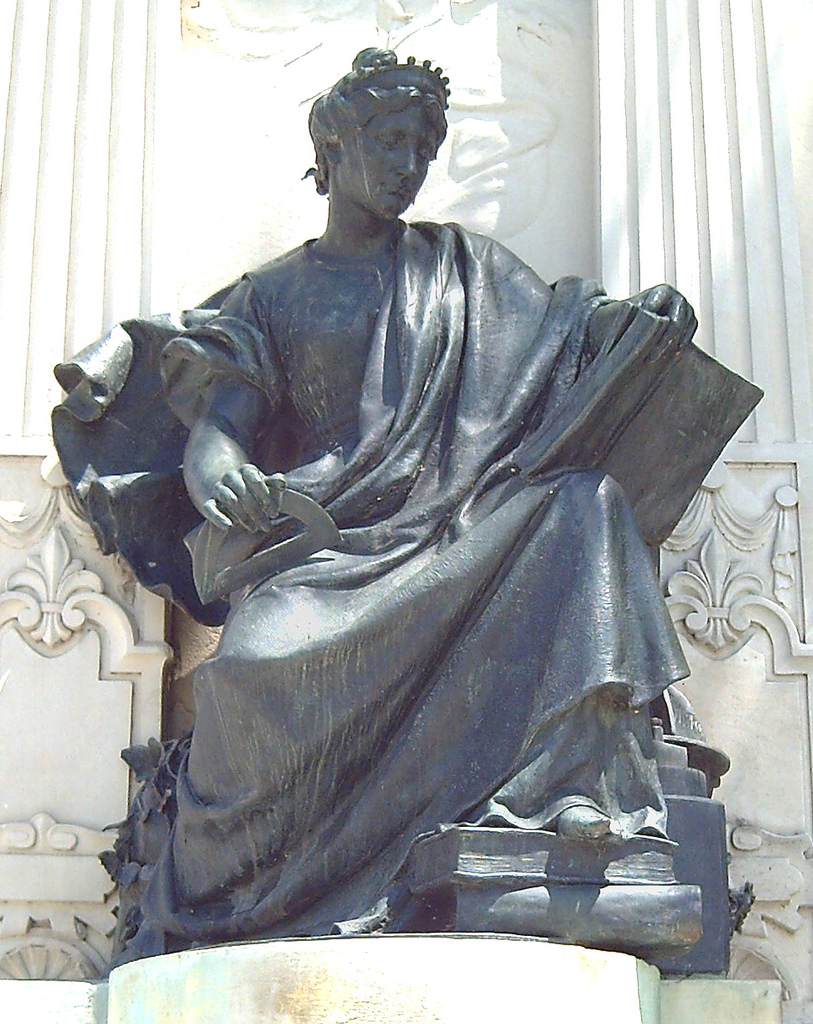 Sciences. Bronze allegorical sculpture by Manel Fuxà Leal (1850–1927). Detail of the Monument to Alfonso XII of Spain in the Retiro Park in Madrid, built from 1902 to 1922.